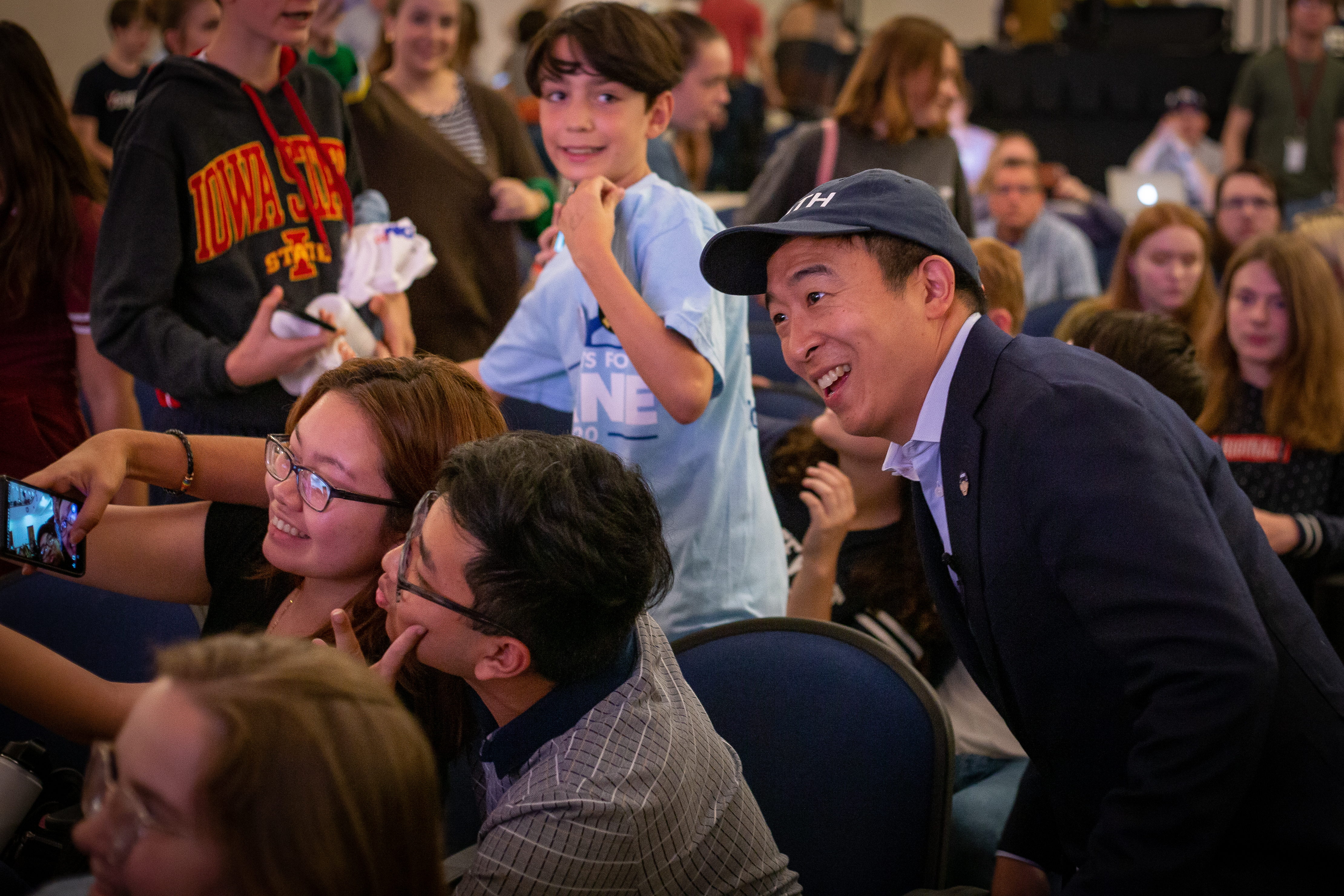 Andrew Yang. Photos taken for work of Youth Voice: The Iowa Caucus, a presidential candidate forum hosted at Roosevelt High School. U.S. Representative Tulsi Gabbard, U.S. Senator Michael Bennet, U.S. Senator Bernie Sanders, Andrew Yang, Joe Sestak and Tom Steyer took part in the event, answering questions from high school and college students from Des Moines and even across the country. The event was co-sponsored by Des Moines Public Schools and the Des Moines Register.